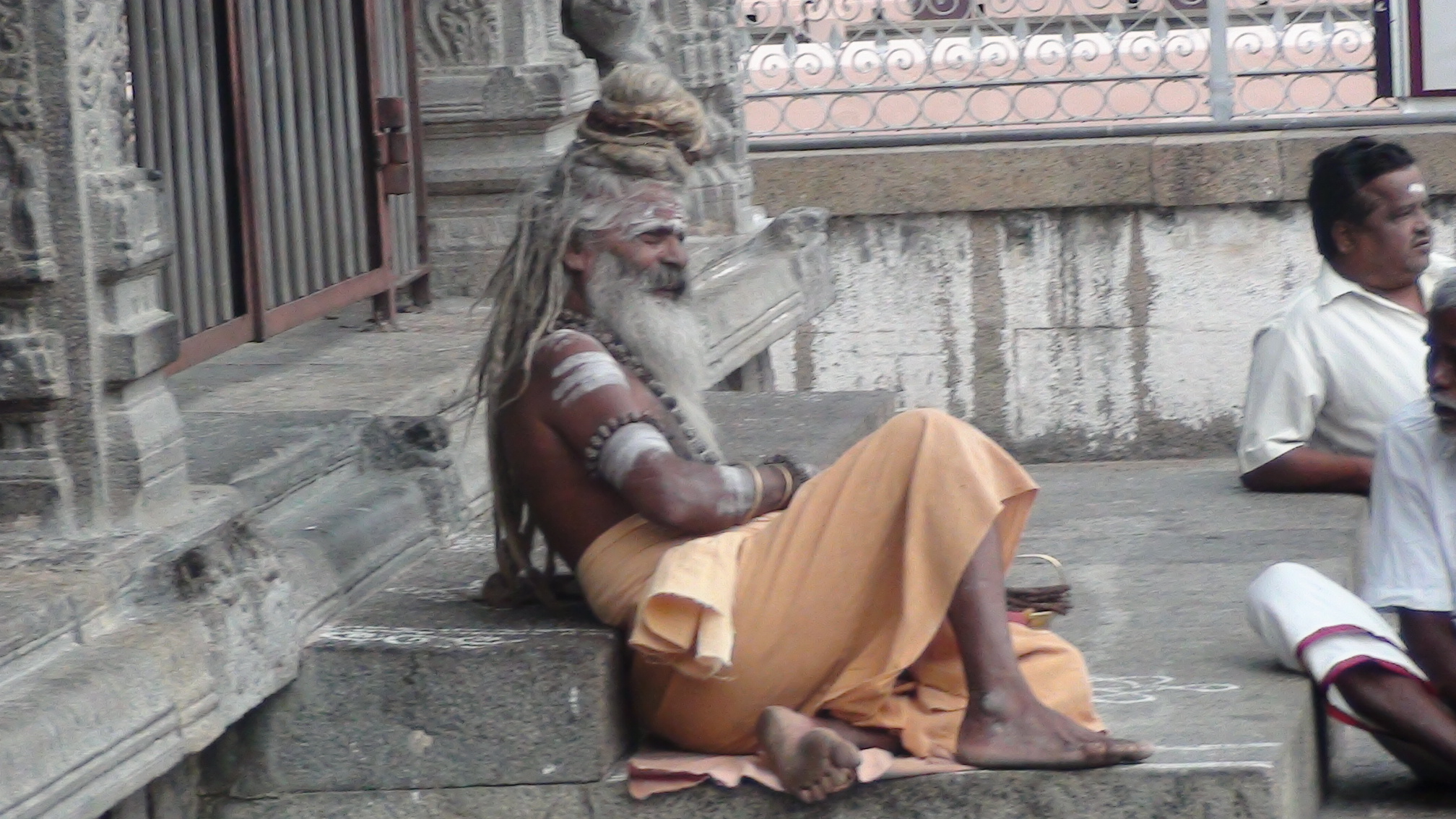 Taken in the great Temple of Thiruvannamalai, the sadhu seems to be in blissful tranquiltiy.